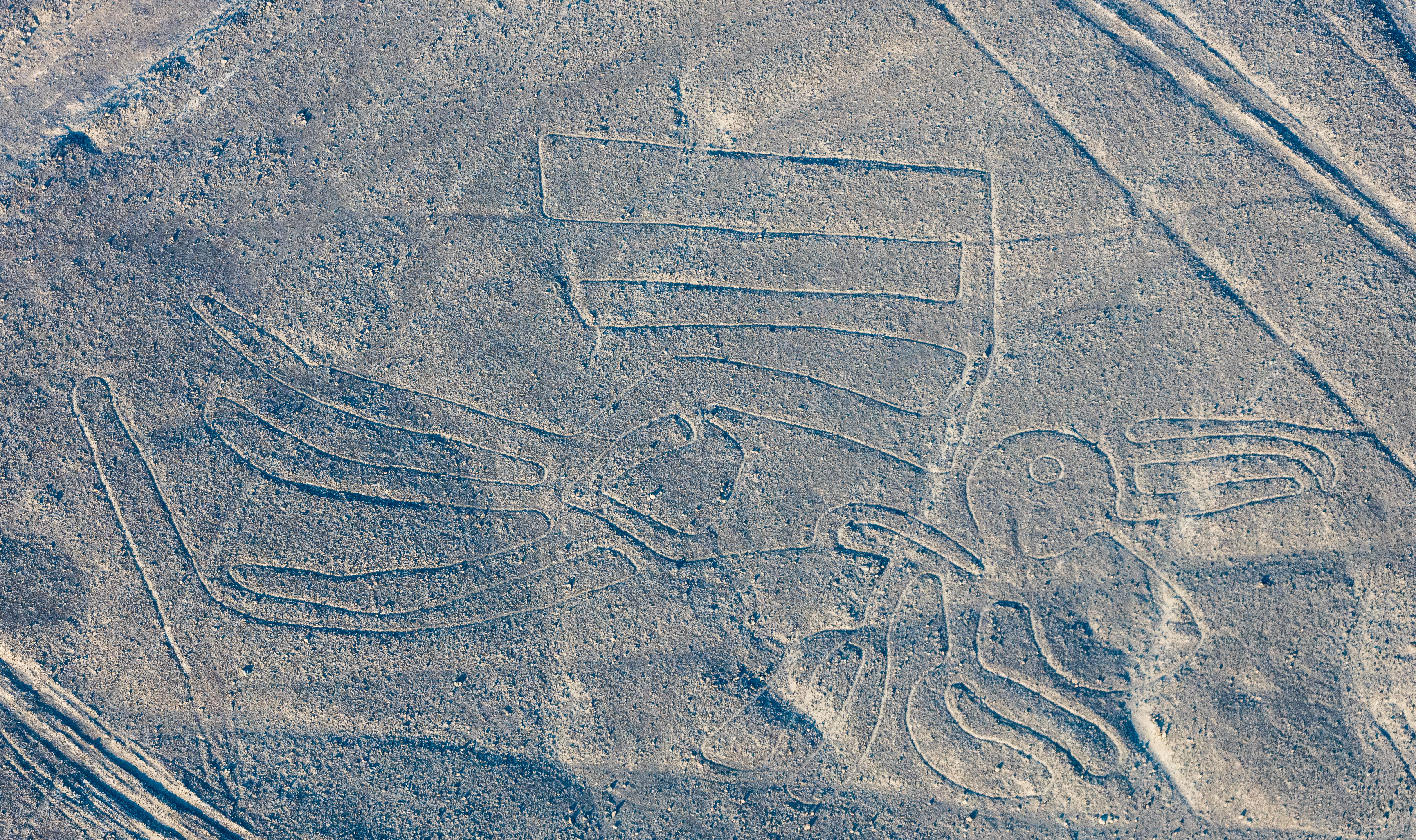 Nazca Lines, Nazca, Peru